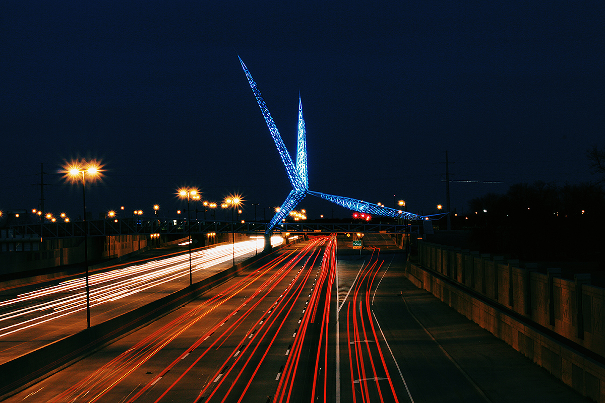 Night photograph of Skydance Bridge overlooking Interstate 40 in downtown Oklahoma City, OK.